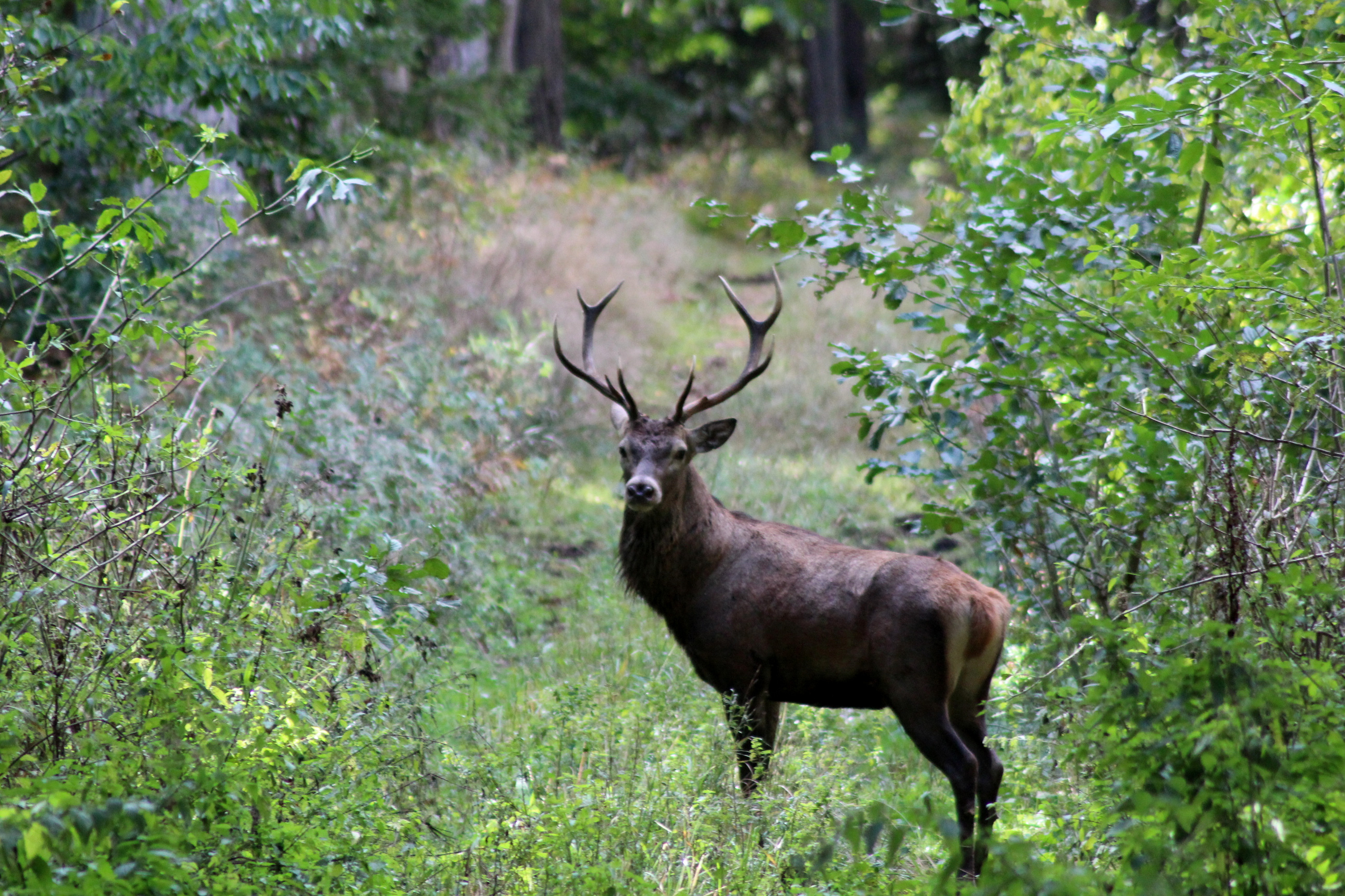 Red deer